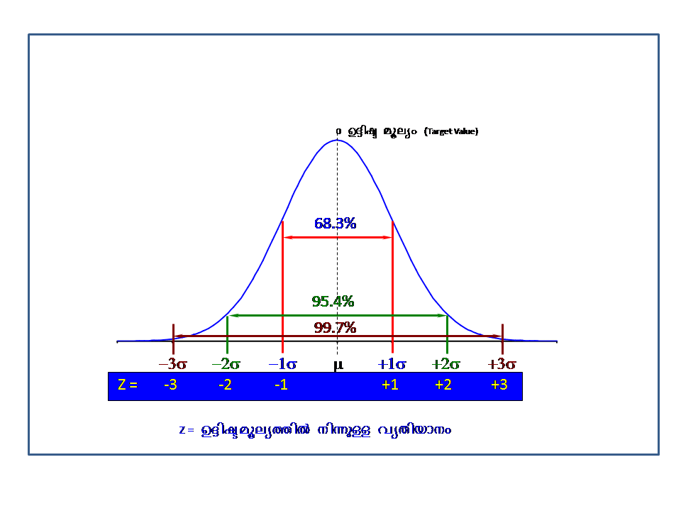 Normal Distribution